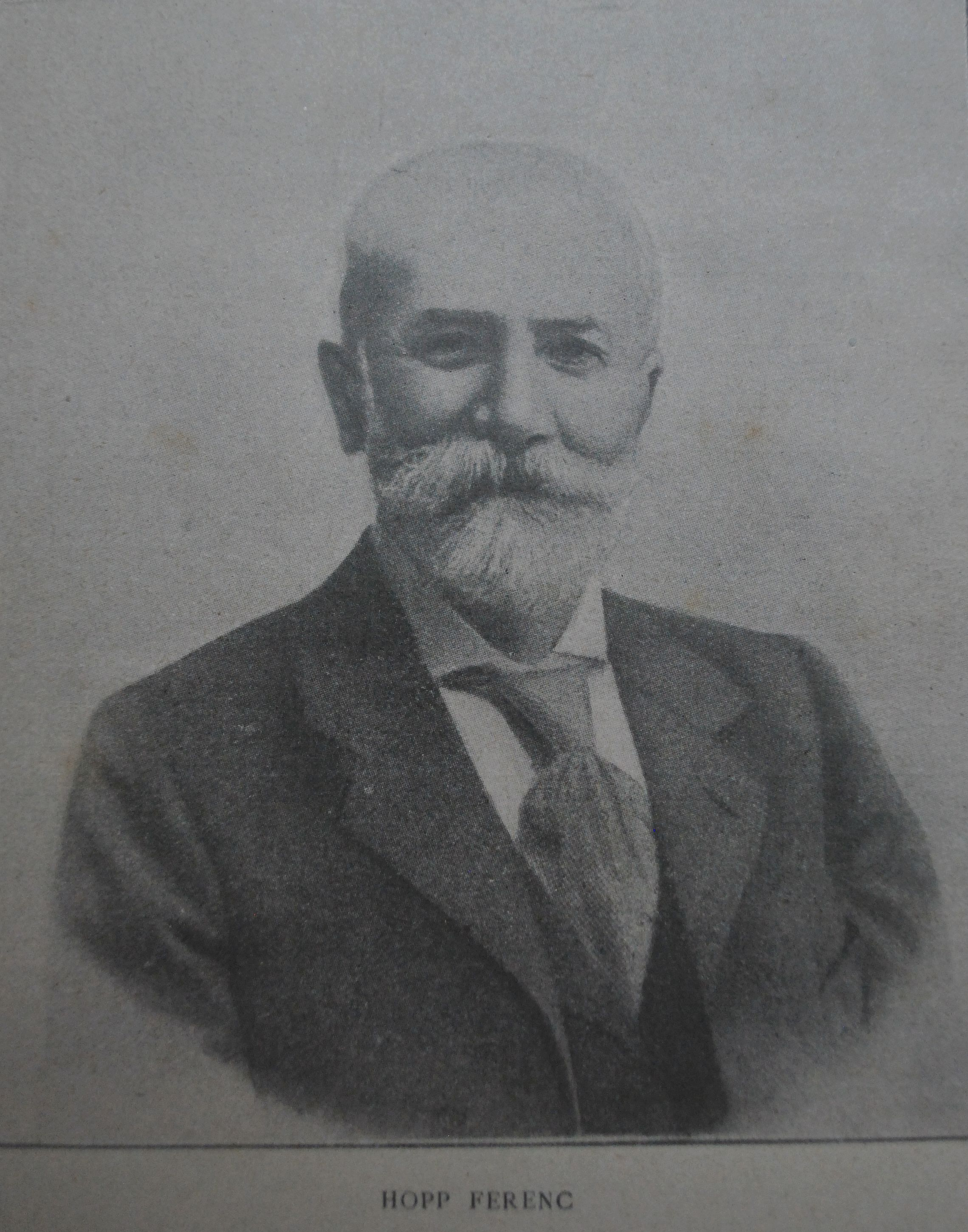 Ferenc Hopp art collector